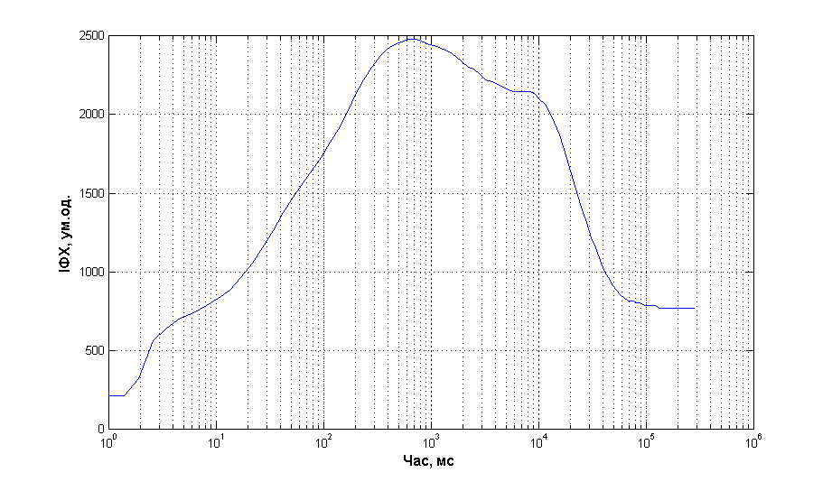 chlorophyll fluorescence of Kalanchoe